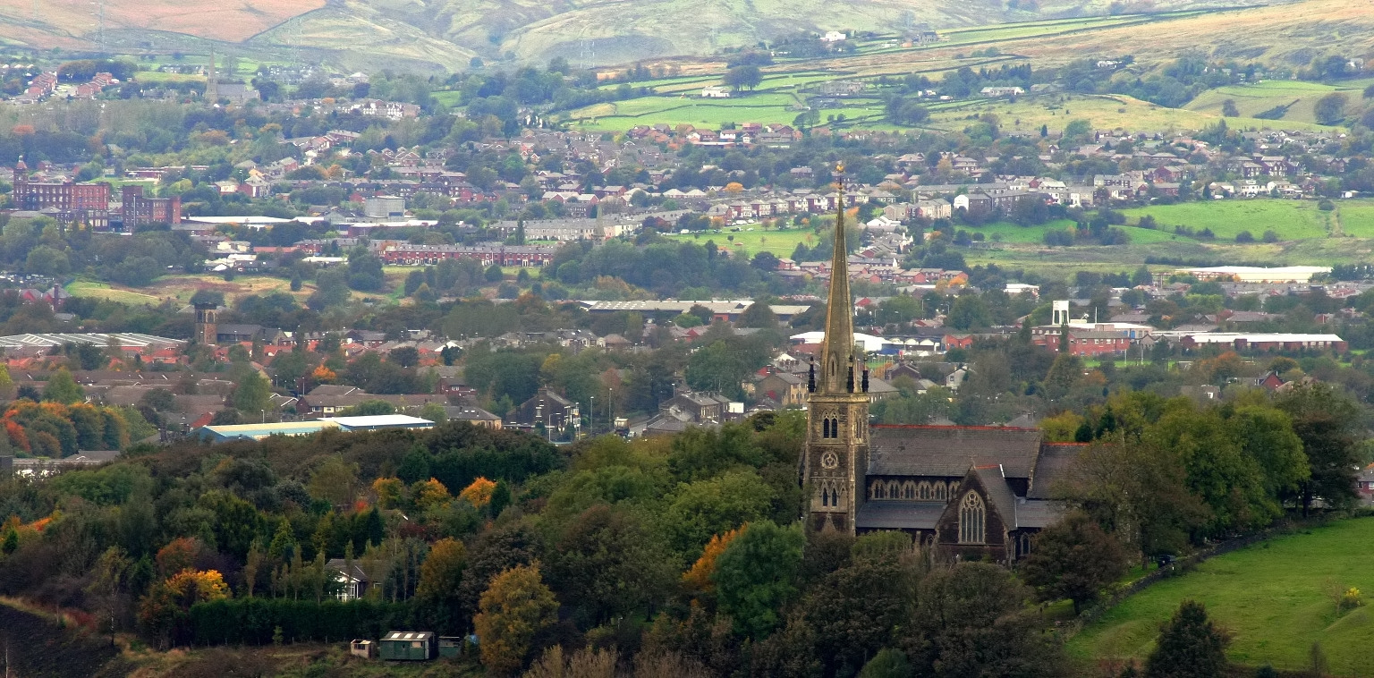 A photo of Newhey, in Greater Manchester, England